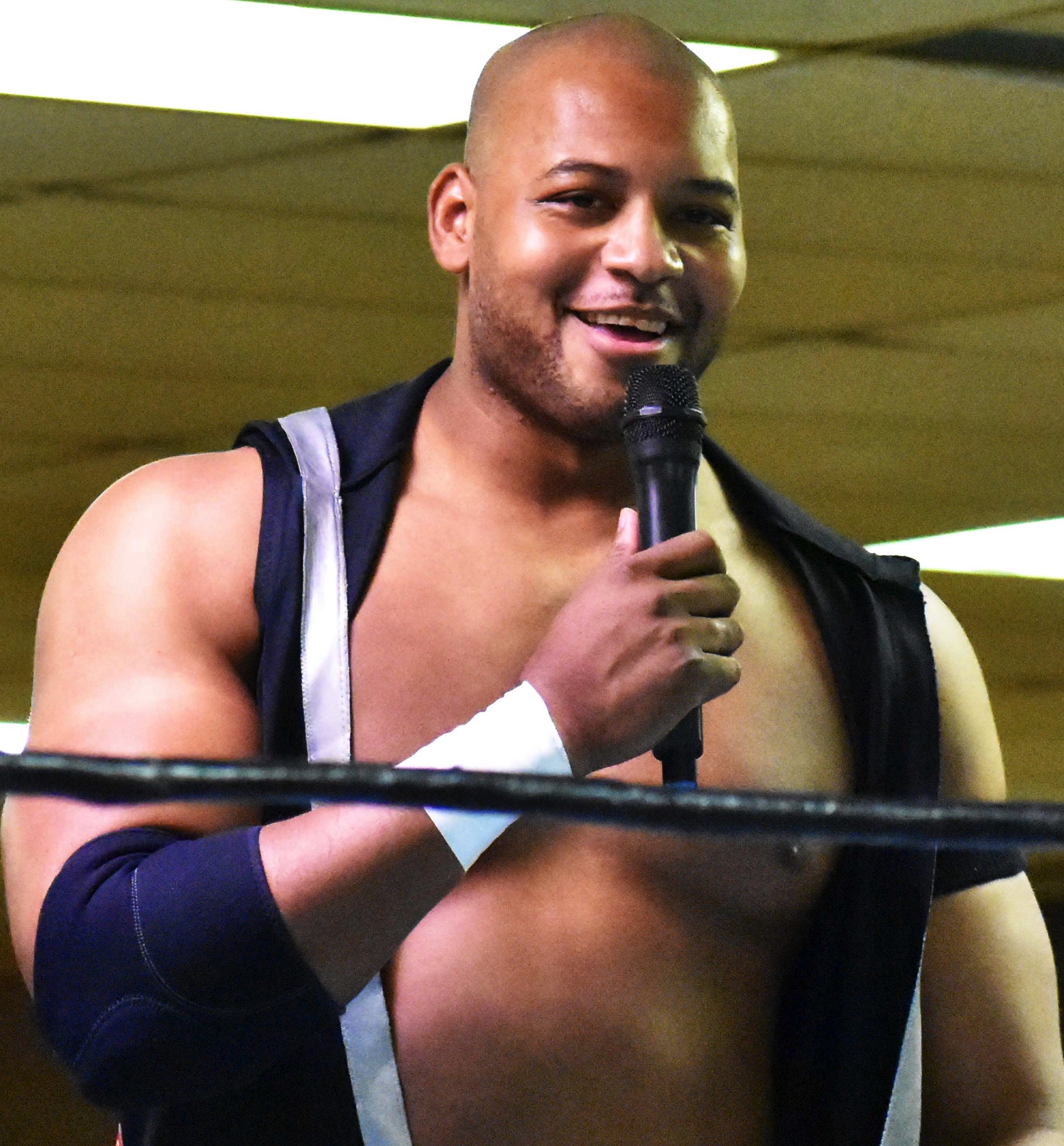 Marshe Rockett appearing at Great Lake Championship Wrestling's "4 Life" pro-wrestling event in Cedarburg, Wisconsin on March 23, 2019.